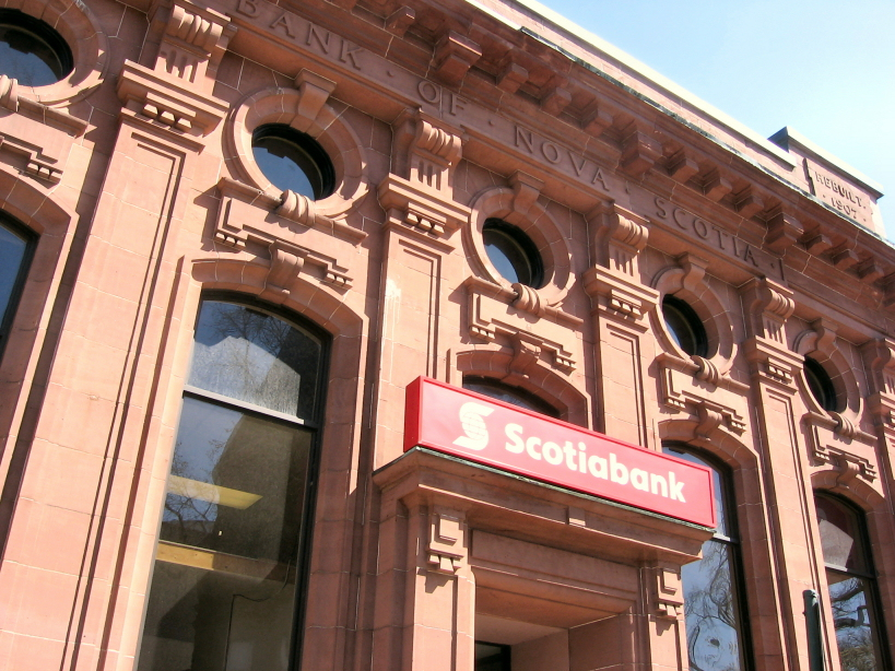 View of a ScotiaBank facade in Amherst, Nova Scotia. This structure was erected in 1907.